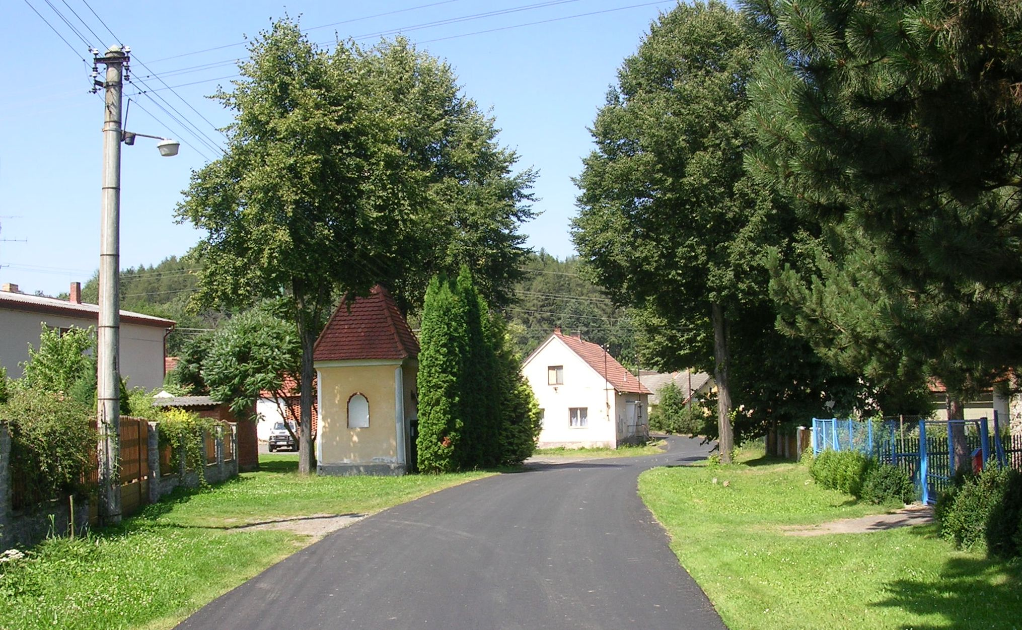 Sedlčany-Oříkov, Příbram District, Central Bohemian Region, the Czech Republic. A chapel.